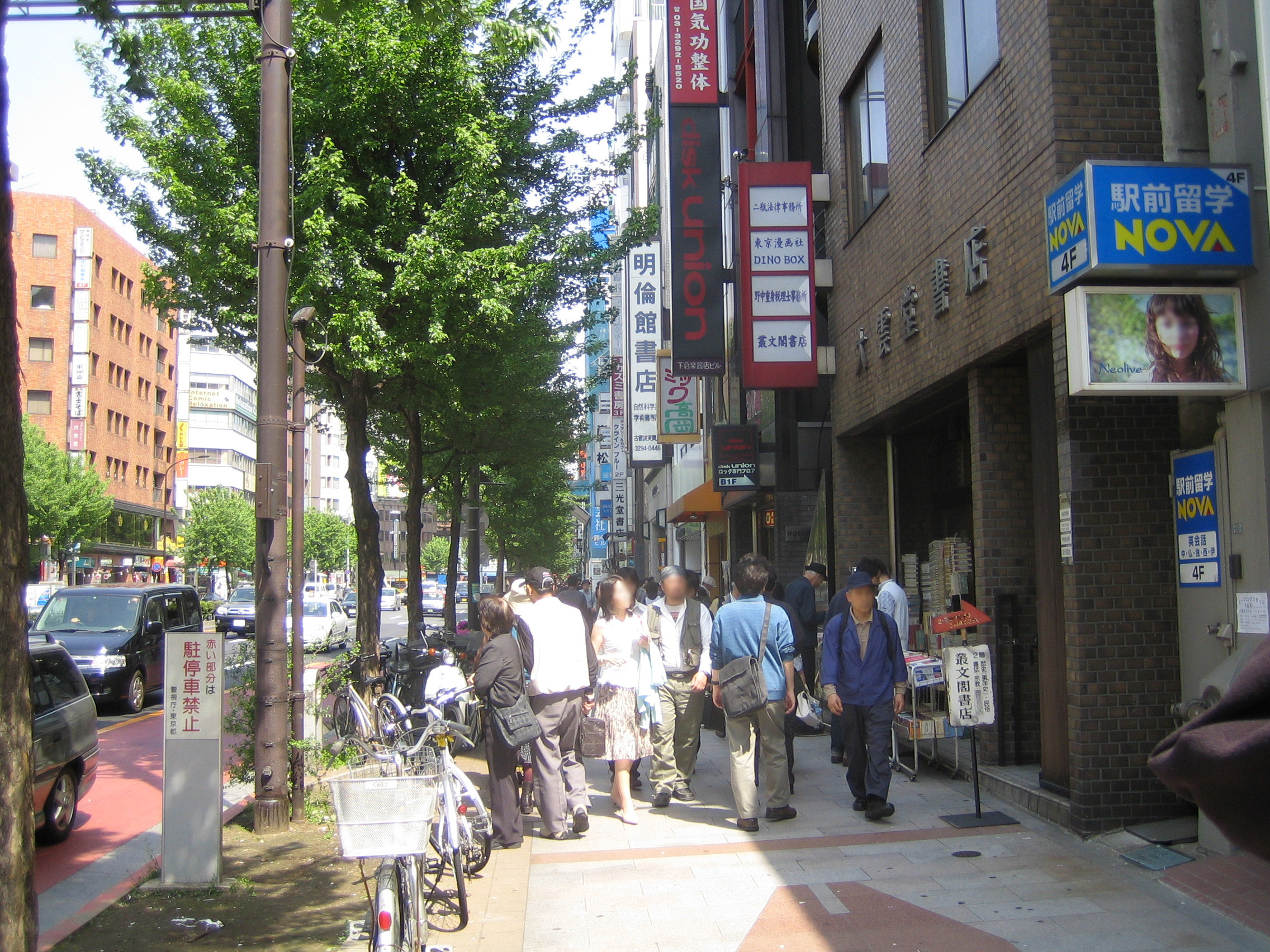 神田古書店街（東京・千代田区神田神保町1-9-5、大雲堂書店付近） Secondhand bookstores district of Kanda (神田古書店街 Kanda Koshotengai), at Kanda-Jinbocho (神田神保町 Kanda-Jinbōchō), Chiyoda, Tokyo, Japan